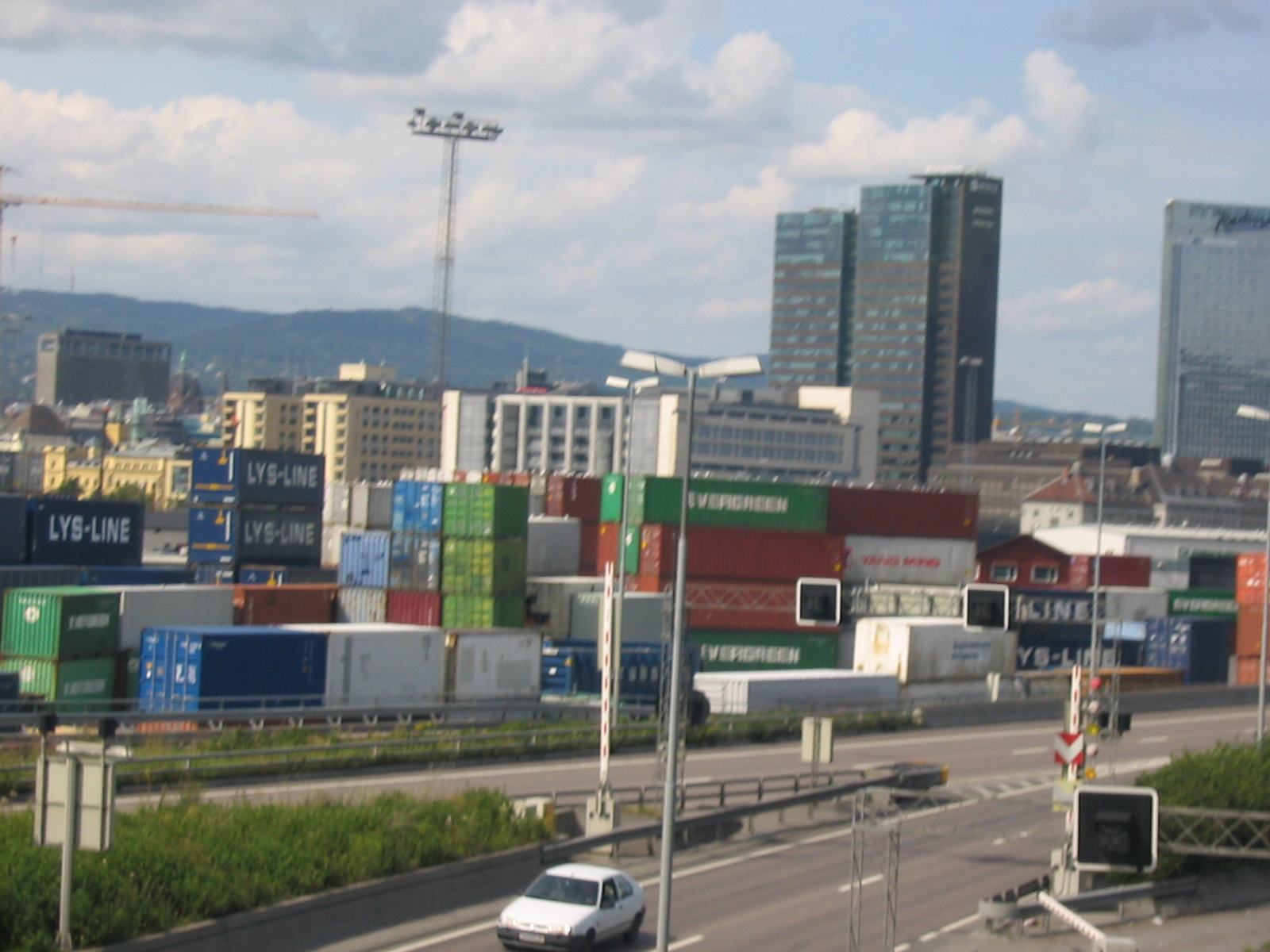 Auto-Translated: Sight taken with the commercial port of Bjørvika (Oslo, Norway), on Bispegata. I am the author of the stereotype taken in July 2004